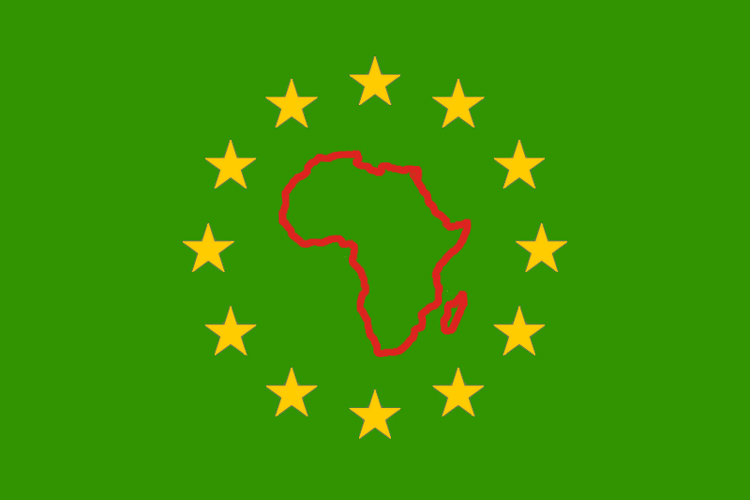 Do not confuse: THIS IS NOT THE FLAG OF THE AFRICAN UNION !!! This was the flag of the Afro-Malagasy Union (Union Africaine et Malgache) and its successor OCAM acoording to Flags of the World and stamps 1962 from Congo and Benin - based on European flag with colours as in OAU-flag and Congo flag - compare